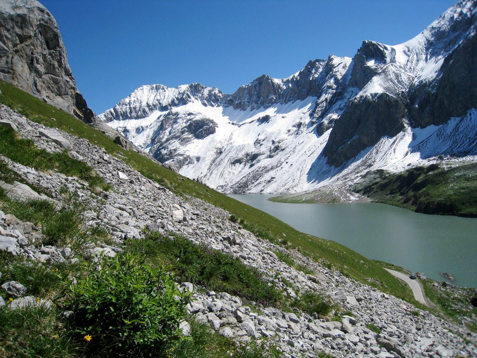 Lac du Sanetsch, near Sanetsch Pass, Valais